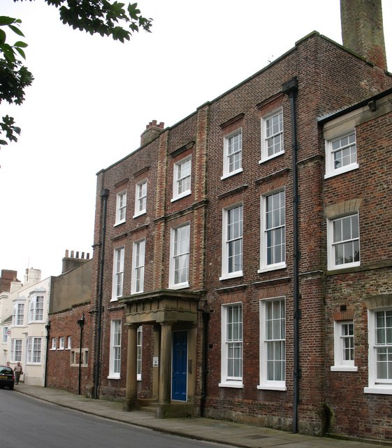 The Avenue, Westgate, Bridlington, East Riding of Yorkshire, England.The two rainwater heads on the front of the building are dated 1714, which would suggest the house is of the Queen Anne period. The largest and finest house in Bridlington old town, it served as a hospital from 1932 to around 1980, after which it lay empty for a long time before being converted to apartments in the mid nineties. The stone porch with doric columns is early 19th century.